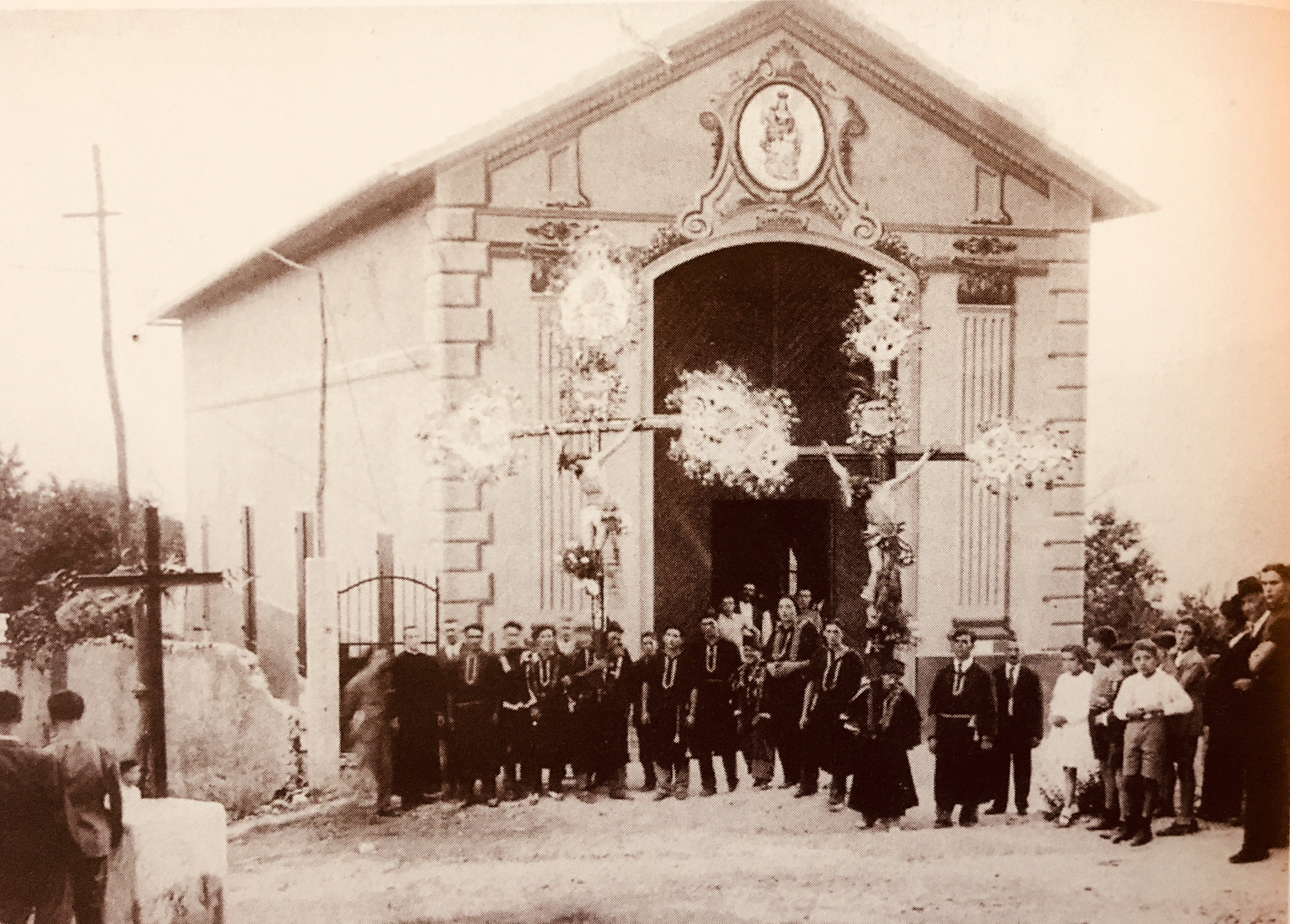 Confraternita Cesino 1936